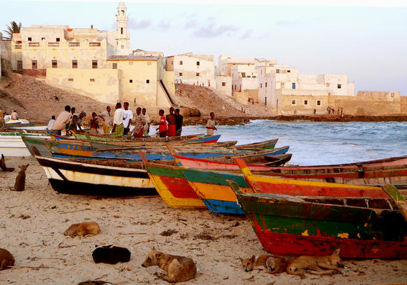 Boats on the beach in Merca, Somalia